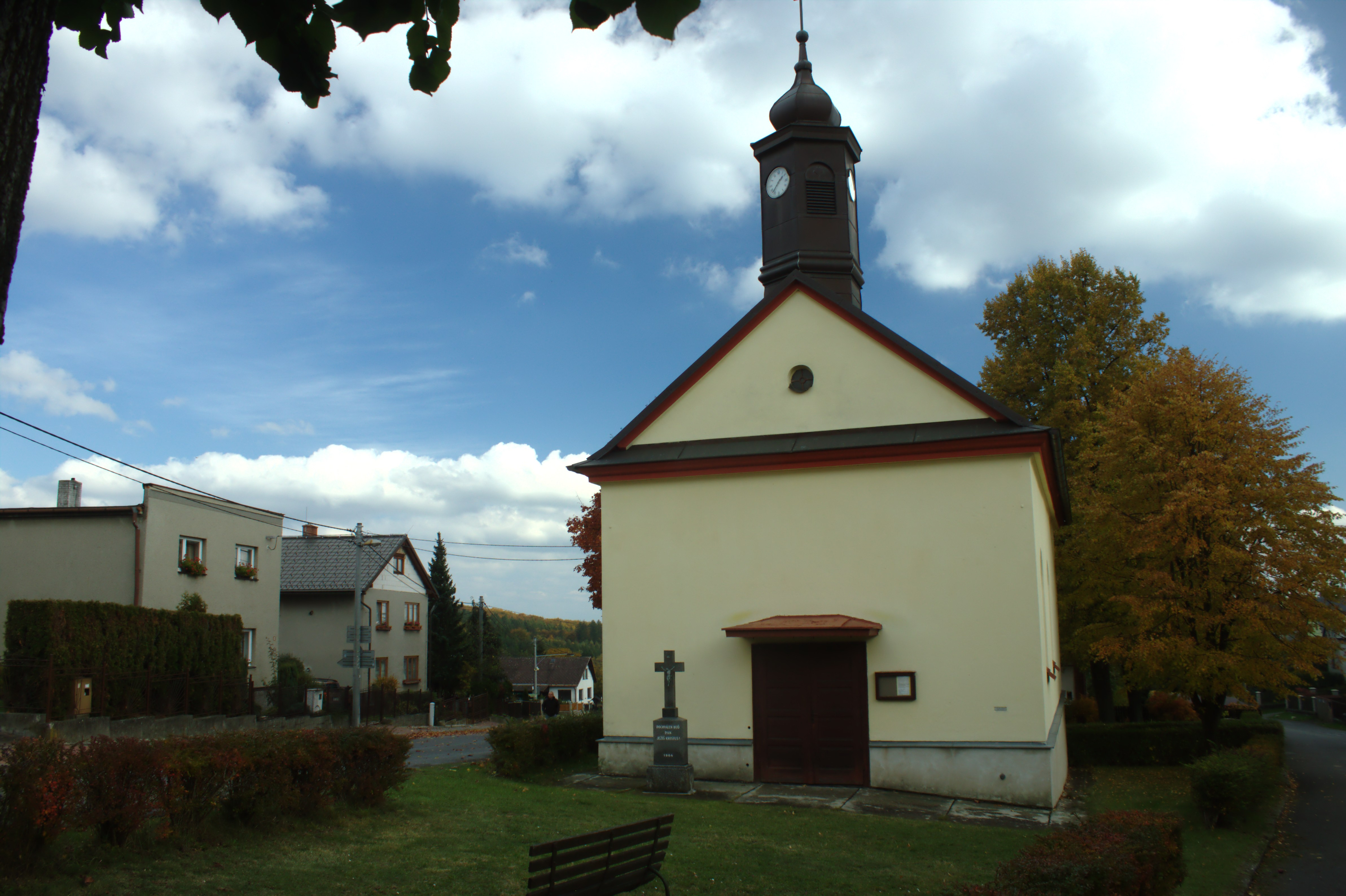 Front side of the Budišovice chapel, Opava District, CZ